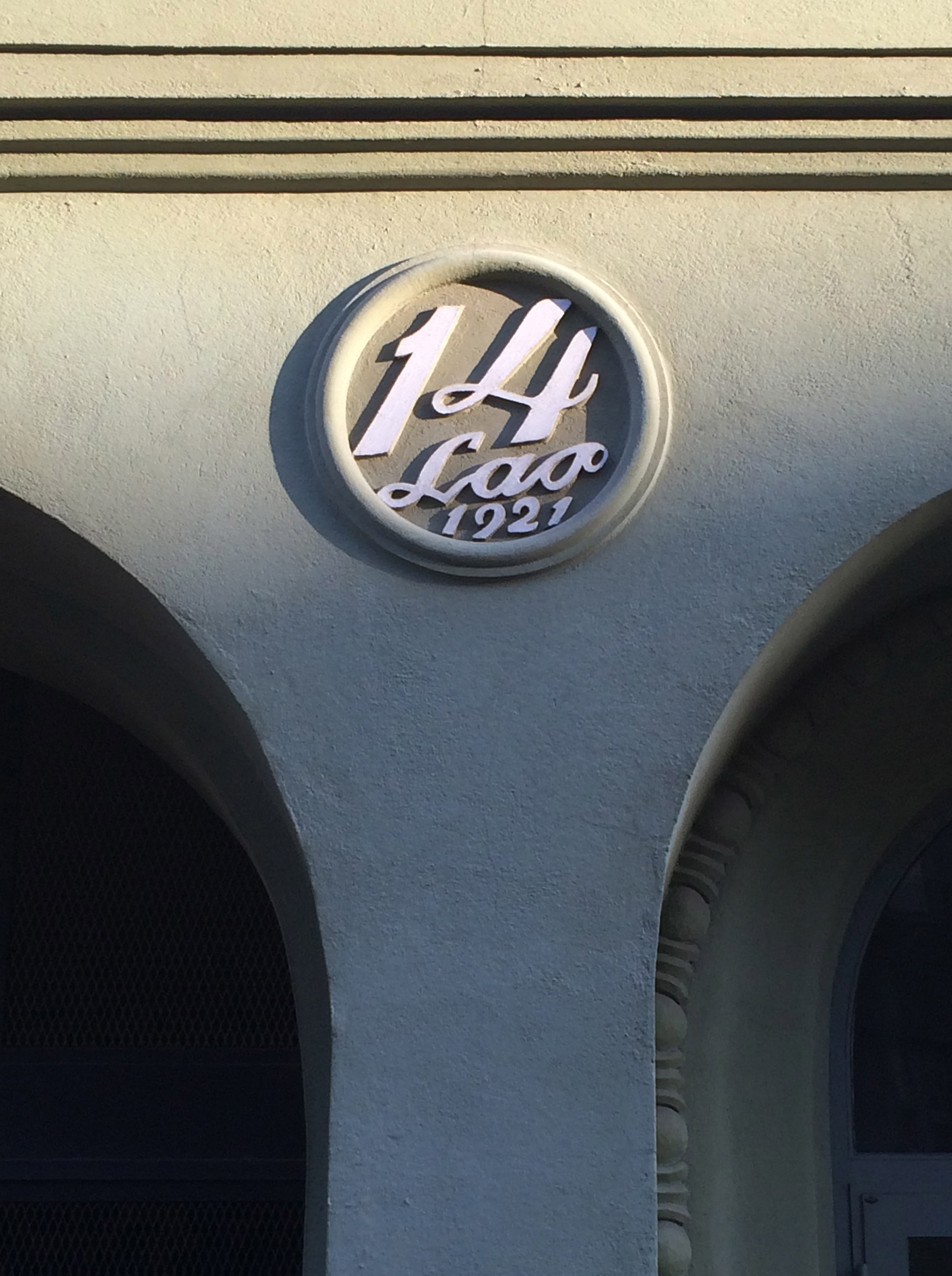 Number 14, initials LAP and year 1921 on the façade of Arkadiankatu 14, Helsinki. The building was designed by Leuto A. Pajunen and completed in 1921.